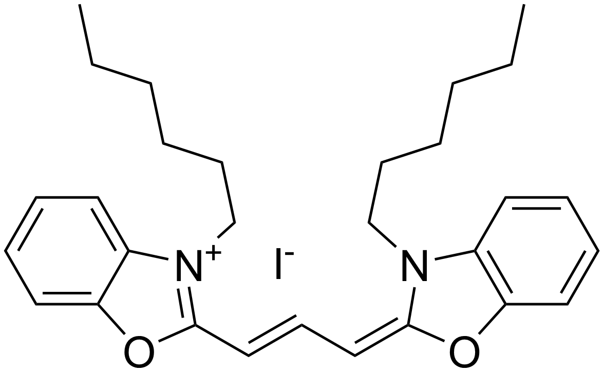 chemical structure of 3,3'-dihexyloxacarbocyanine iodide (DiOC6)